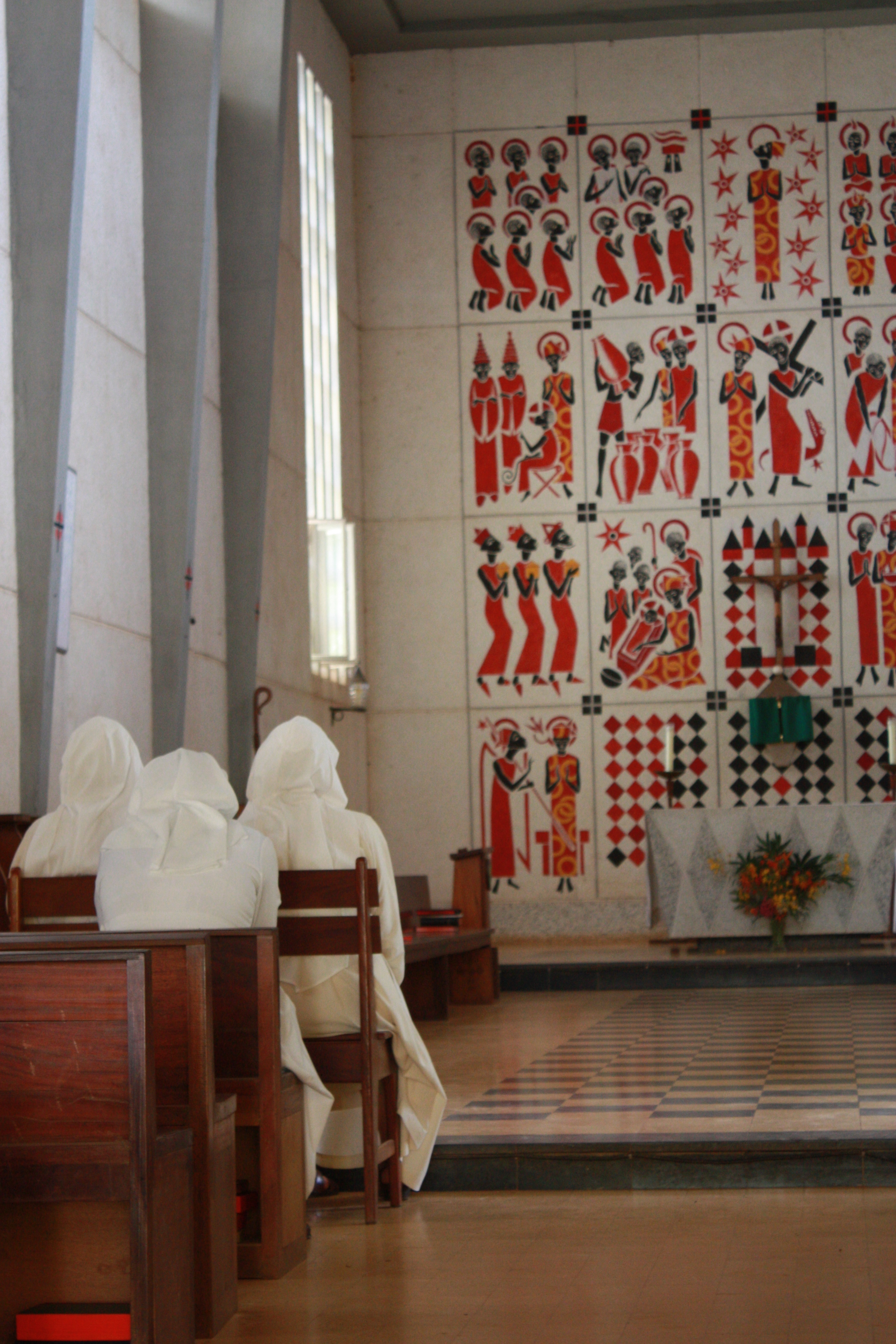 Interior of Keur Moussa Abbey (Senegal)